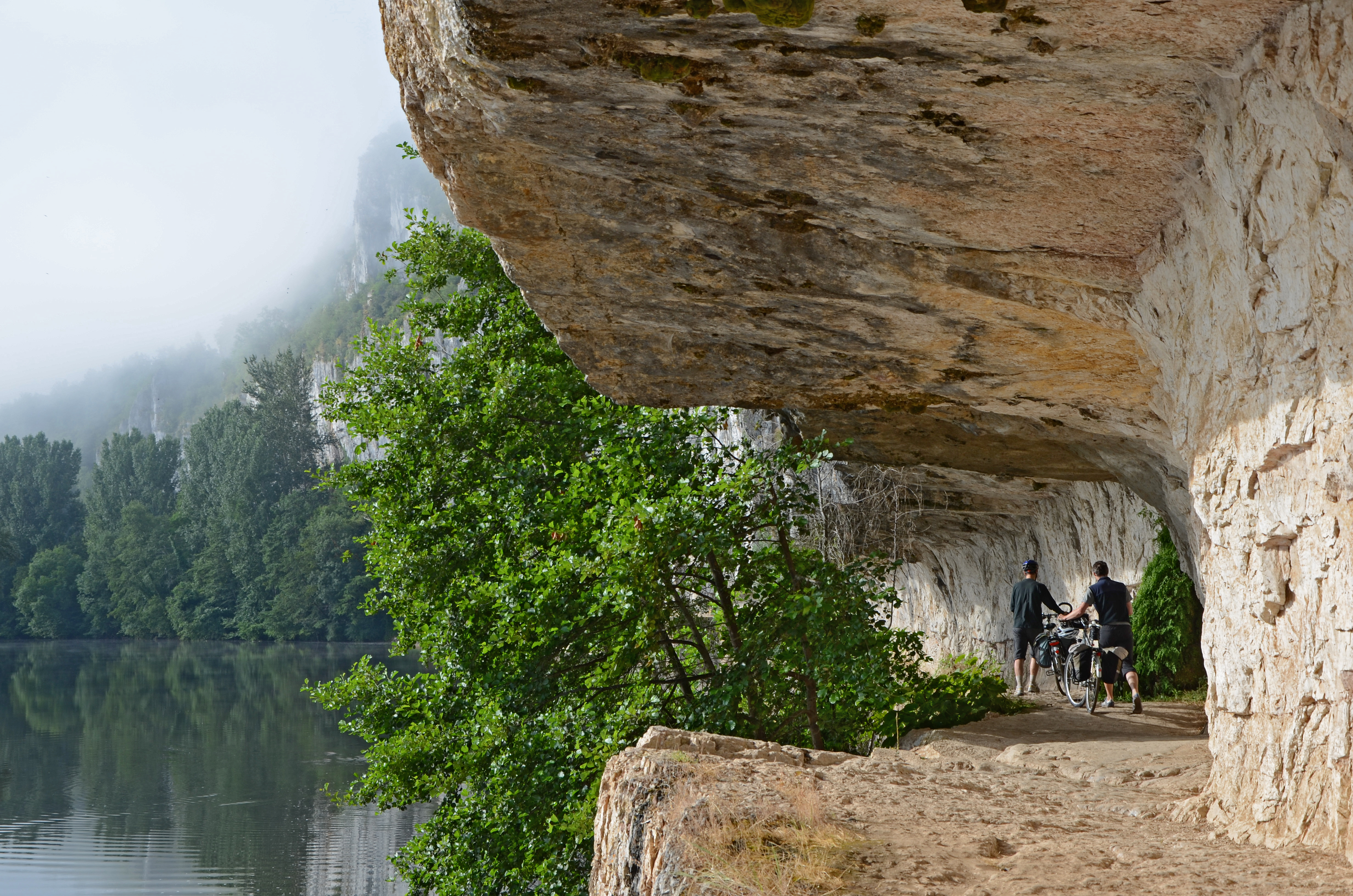 Towpath along the river Lot near St-Cirq-Lapopie, Lot, France